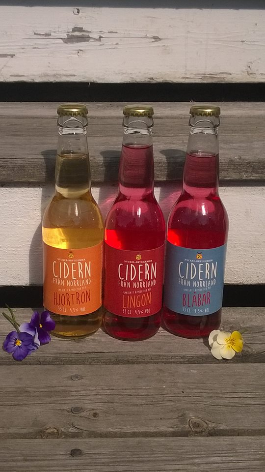 Three bottles of ciders by Nyckel-Bryggerier, Älvsbyn, Sweden. Photographed in Luleå, Sweden.